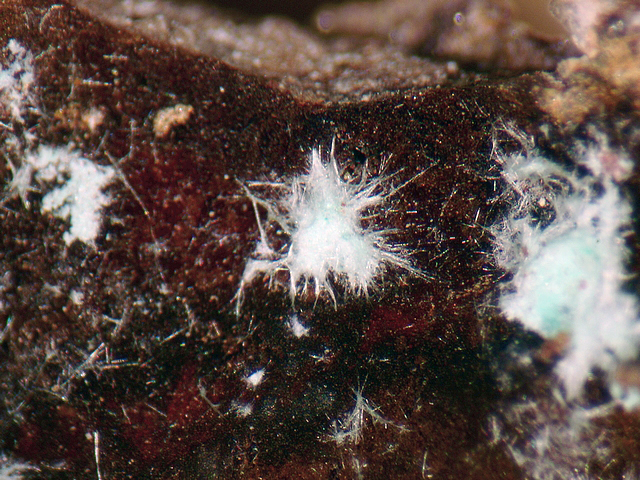 From Kintore Opencuts, Broken Hill, New South Wales